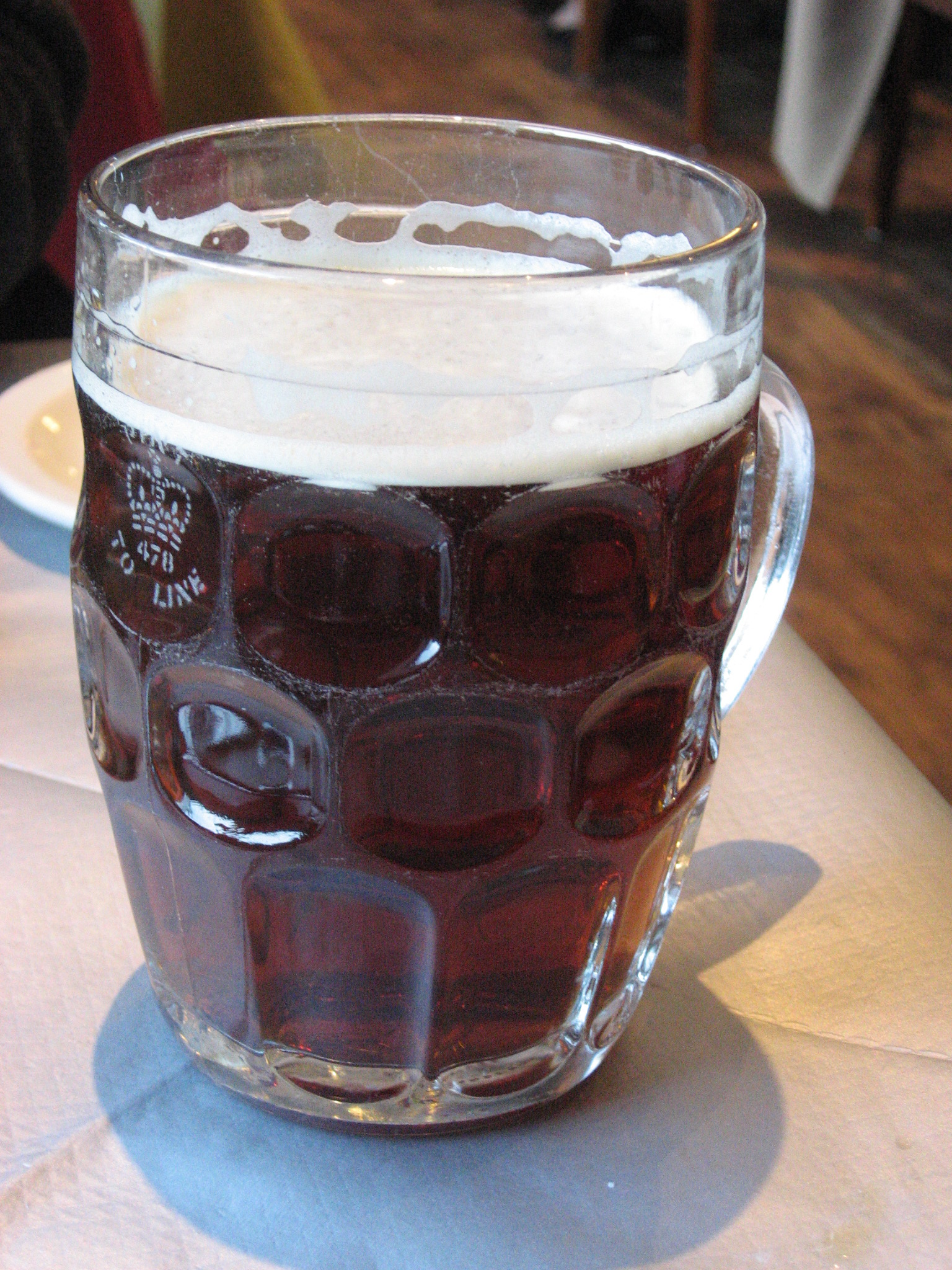 British dimpled glass pint jug of real ale showing legal measurement marks (It's actually Uley Brewery's 'Old Spot')